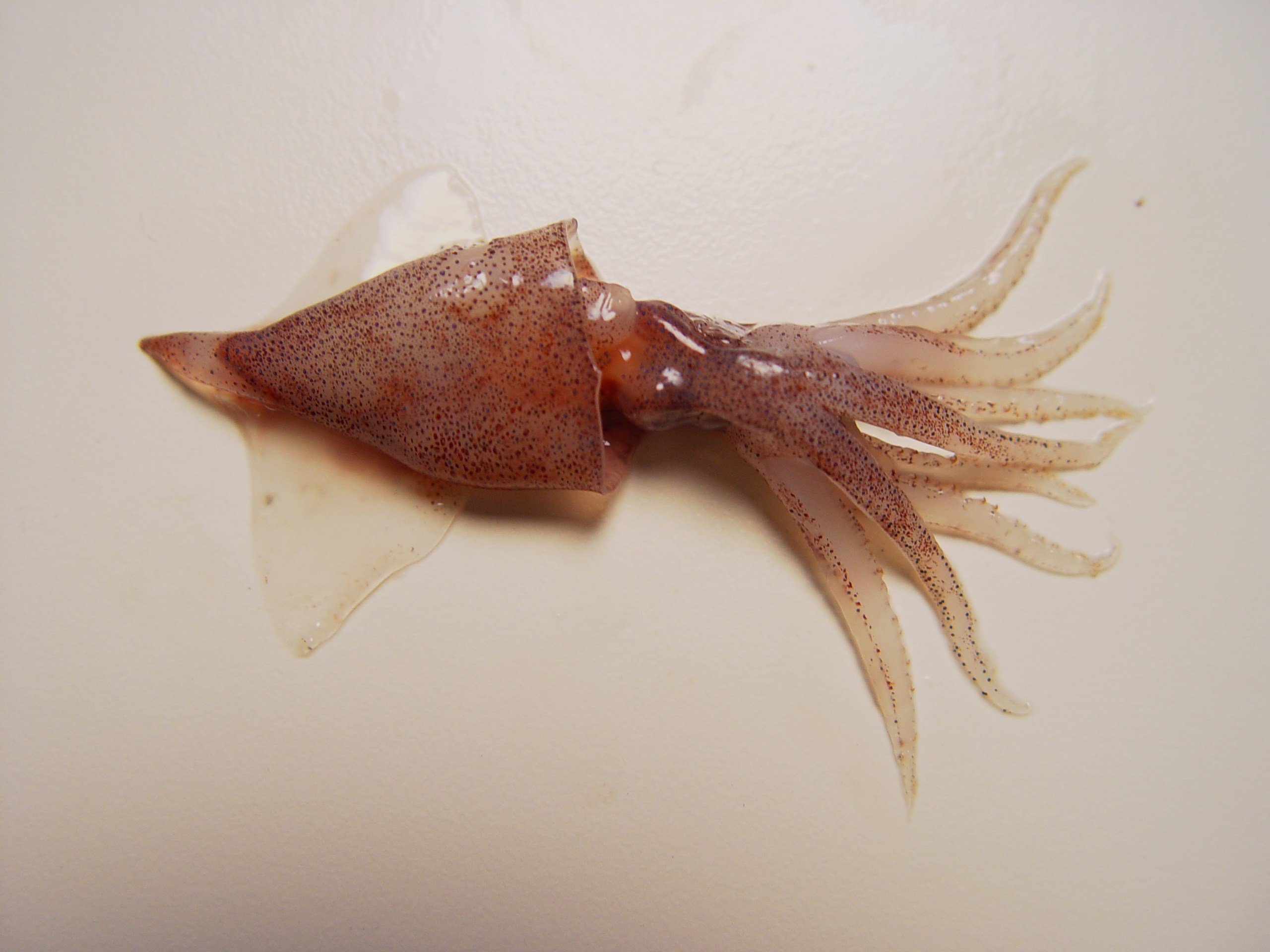 Abralia redfieldi from the Gulf of Mexico